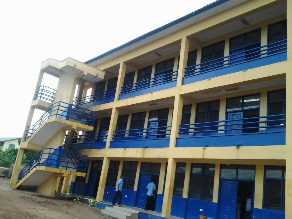 Kalenga House in POJOSS